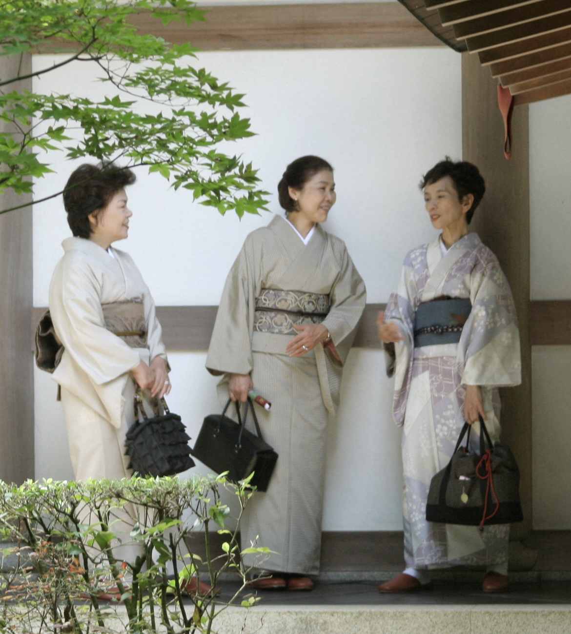 Traditional Kimono-Kyoto-Japan